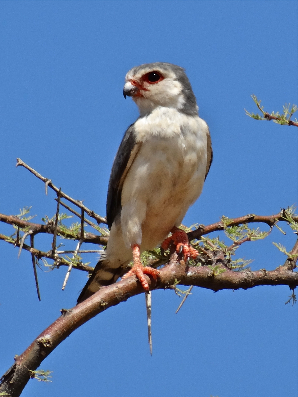 Pygmy falcon (Polihierax semitorquatus castanonotus) photographed in the Samburu National Reserve, Kenya